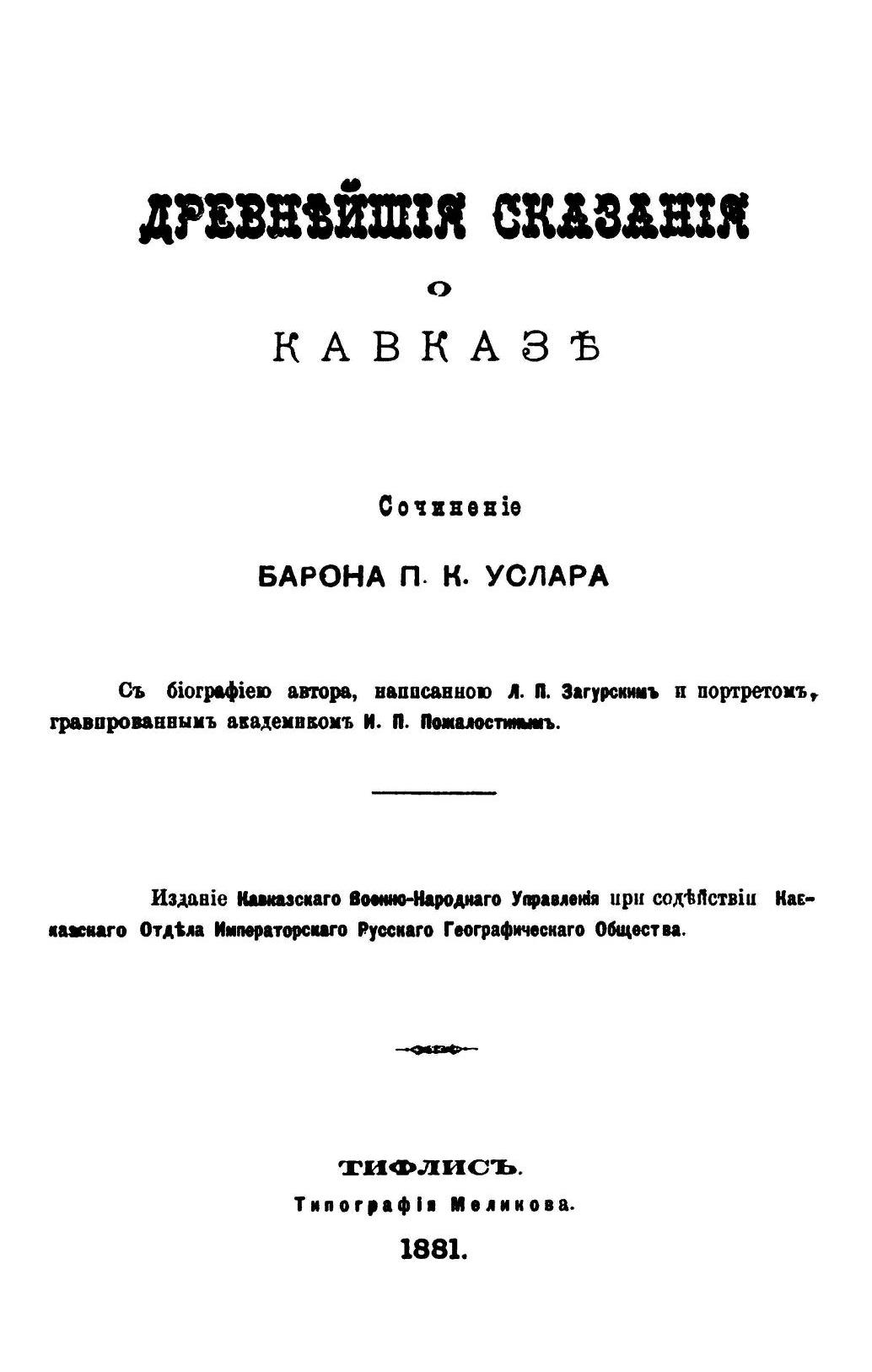 Cover of Petr Uslar's 1886 book